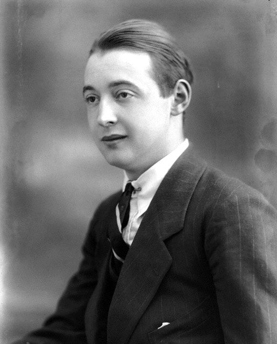 The 14th Earl of Kinnoull, photo taken 19 June 1920